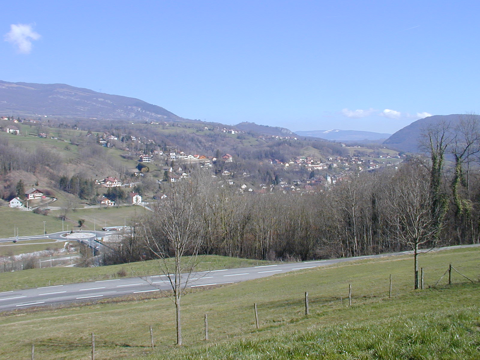 Little town of Frangy, Haute-Savoie, France.